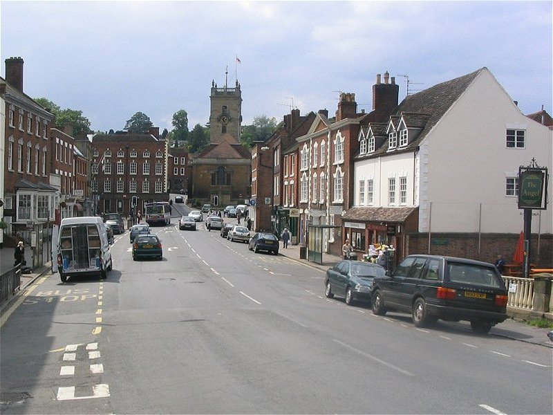 Load Street, Bewdley taken from Bewdley Bridge. Photo taken by Loganberry, 21 May 2004.